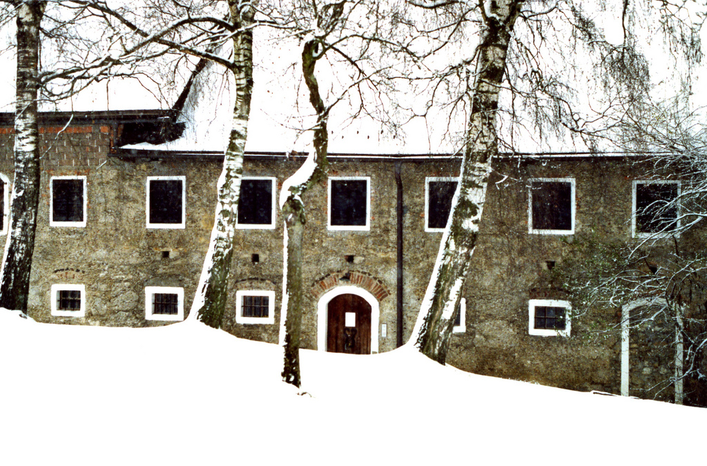 Christiaan Tonnis ~ Thomas Bernhard's House #2 / Photography (1992) / Video (2006) At the 25th of December 1992 I traveled to writer Thomas Bernhard and made some photographs of his house, which is located in Ohlsdorf-Obernathal, Austria. Obernathal consists of three barnyards and one chapel. I crossed a wood, and suddenly I was there. At the 5th of July 2006 I used these photographs to create a video called "Thomas Bernhard's House - A Visit".